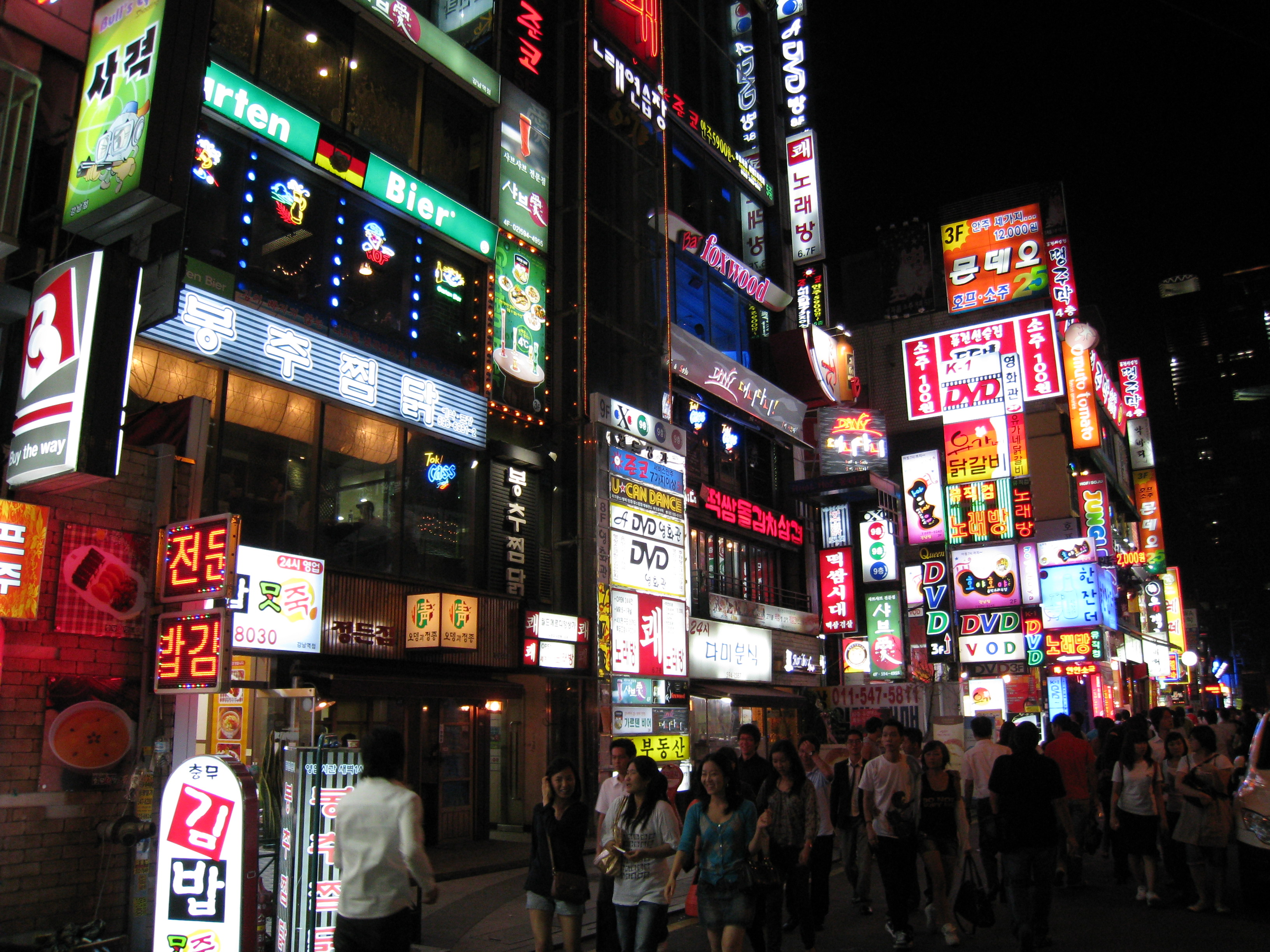 Gangnam